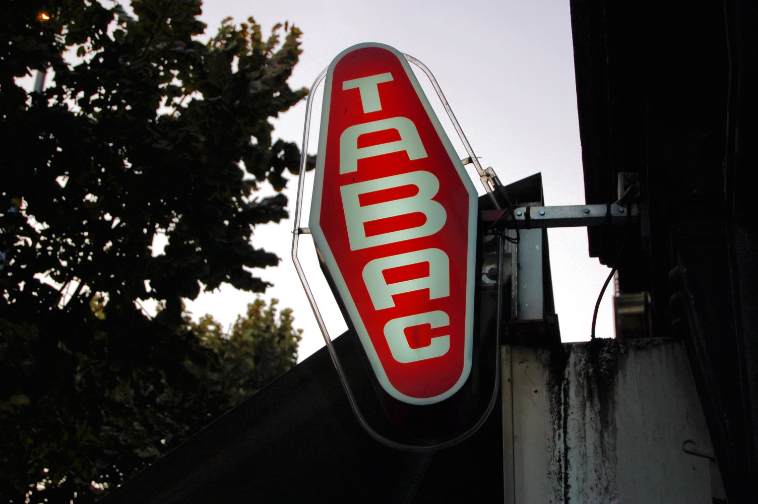 "Carrot" showing a tobacco shop in France